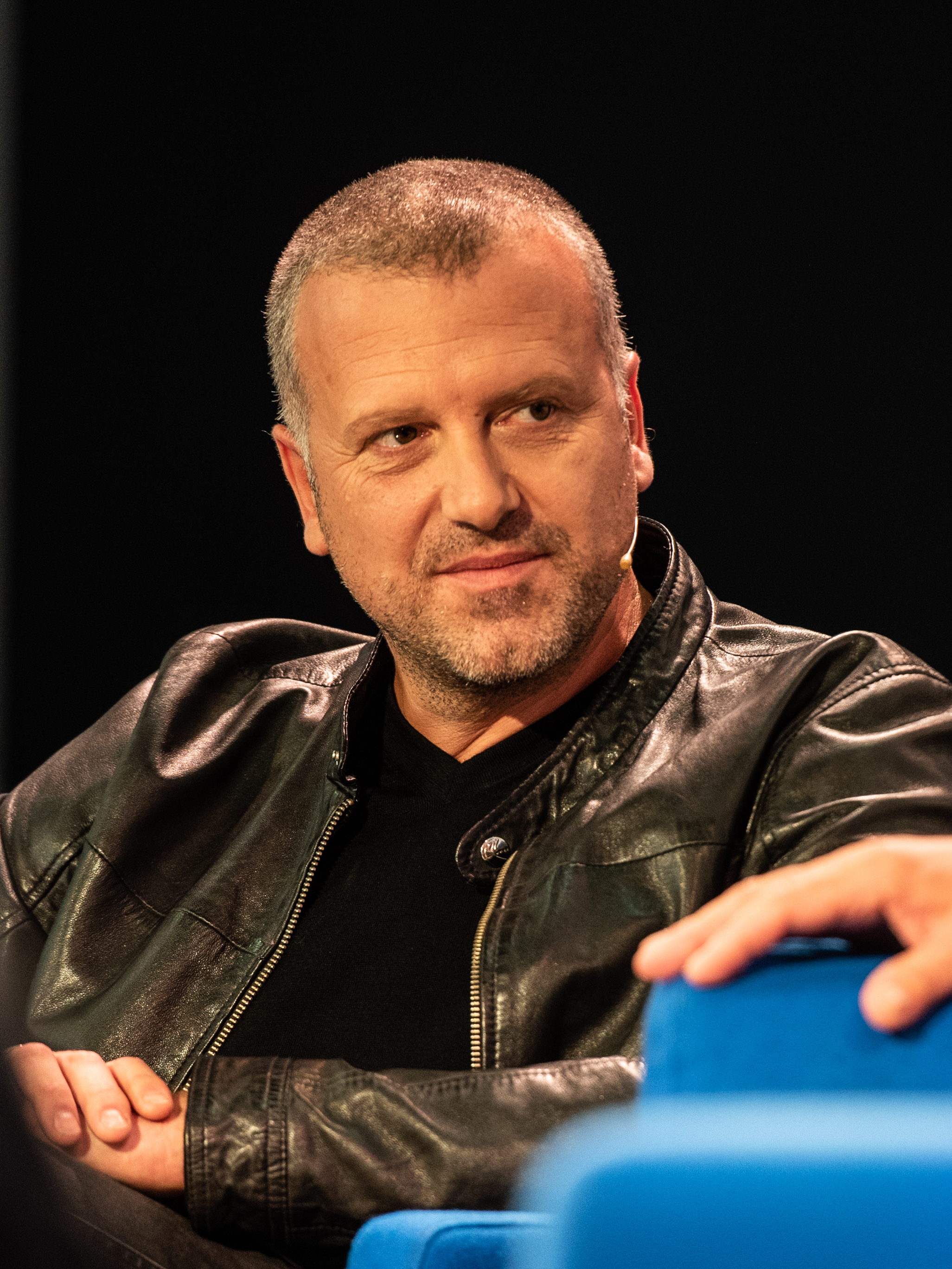 Author Bernhard Aichner at the Frankfurt Book Fair 2018